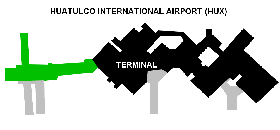 Huatulco International Airport terminal.